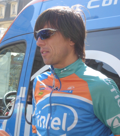 Professional cyclist Bogdan Bondariew in GP Rennes 2007